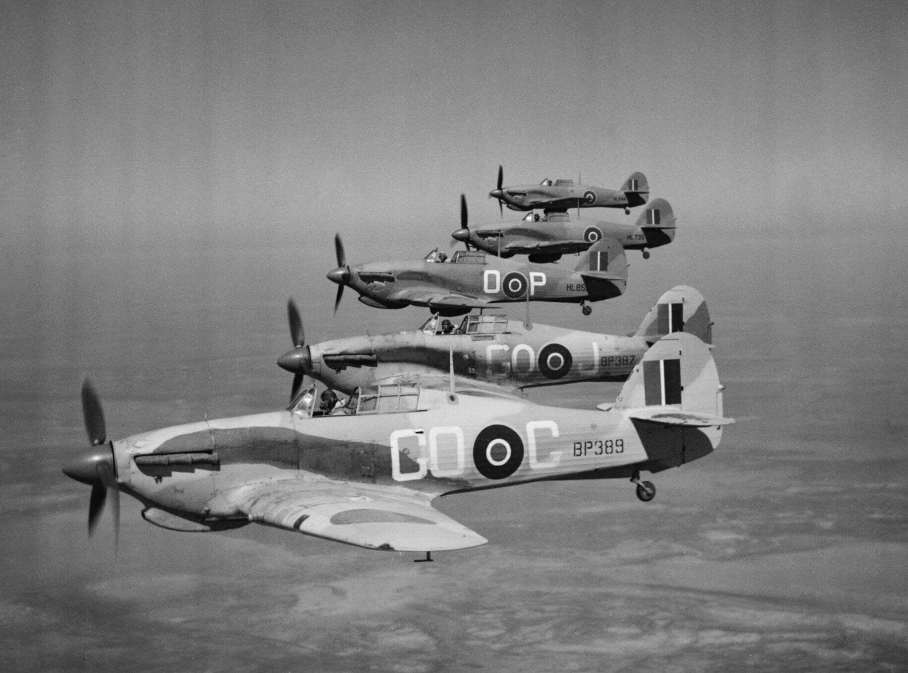 Five tropicalised Hawker Hurricane Mark IICs of No. 94 Squadron RAF based at El Gamil, Egypt, flying in loose starboard echelon formation. The outboard 20mm cannons have been removed from the nearest aircraft (BP389 ‘GO-G’) to aid performance. The three rearmost Hurricanes are the "MacRobert Fighters", presentation aircraft paid for by Lady Rachel MacRobert in memory of her three sons, all of whom were killed flying in the early stages of the war. They were handed over to 94 Squadron on 19 September 1942 and are, (front to rear); HL851 "Sir Iain" (with its Squadron code letters 'GO-P' partly applied), HL735 "Sir Roderic" and HL844 "Sir Alasdair".